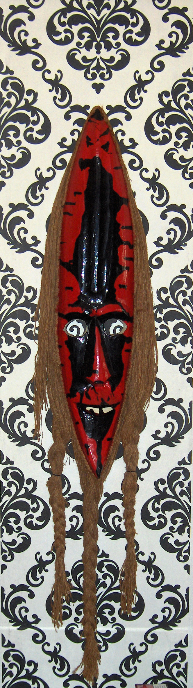 "Daemon Mask" (2002), sculpture by Natasja Delanghe